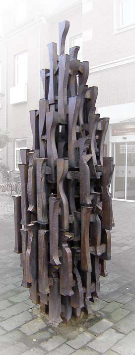 Baum der Rekultivierung (Bergheim)